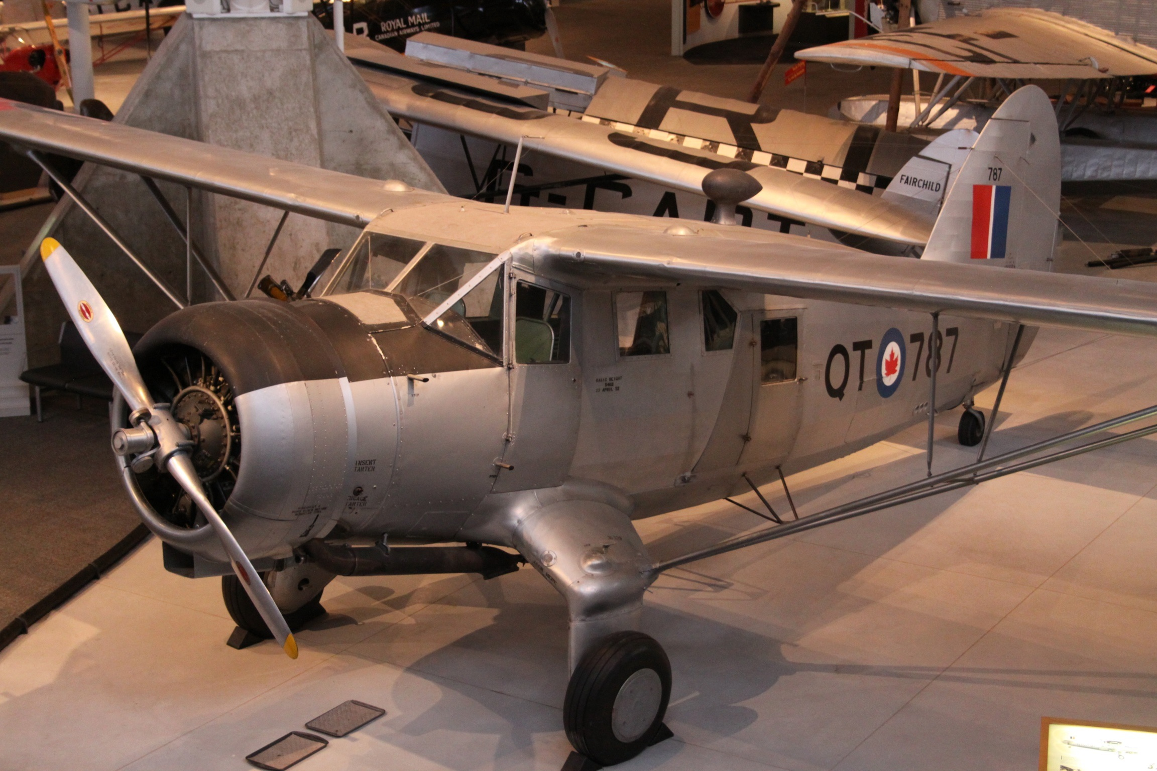 At Rockcliffe Canada Aviation Museum